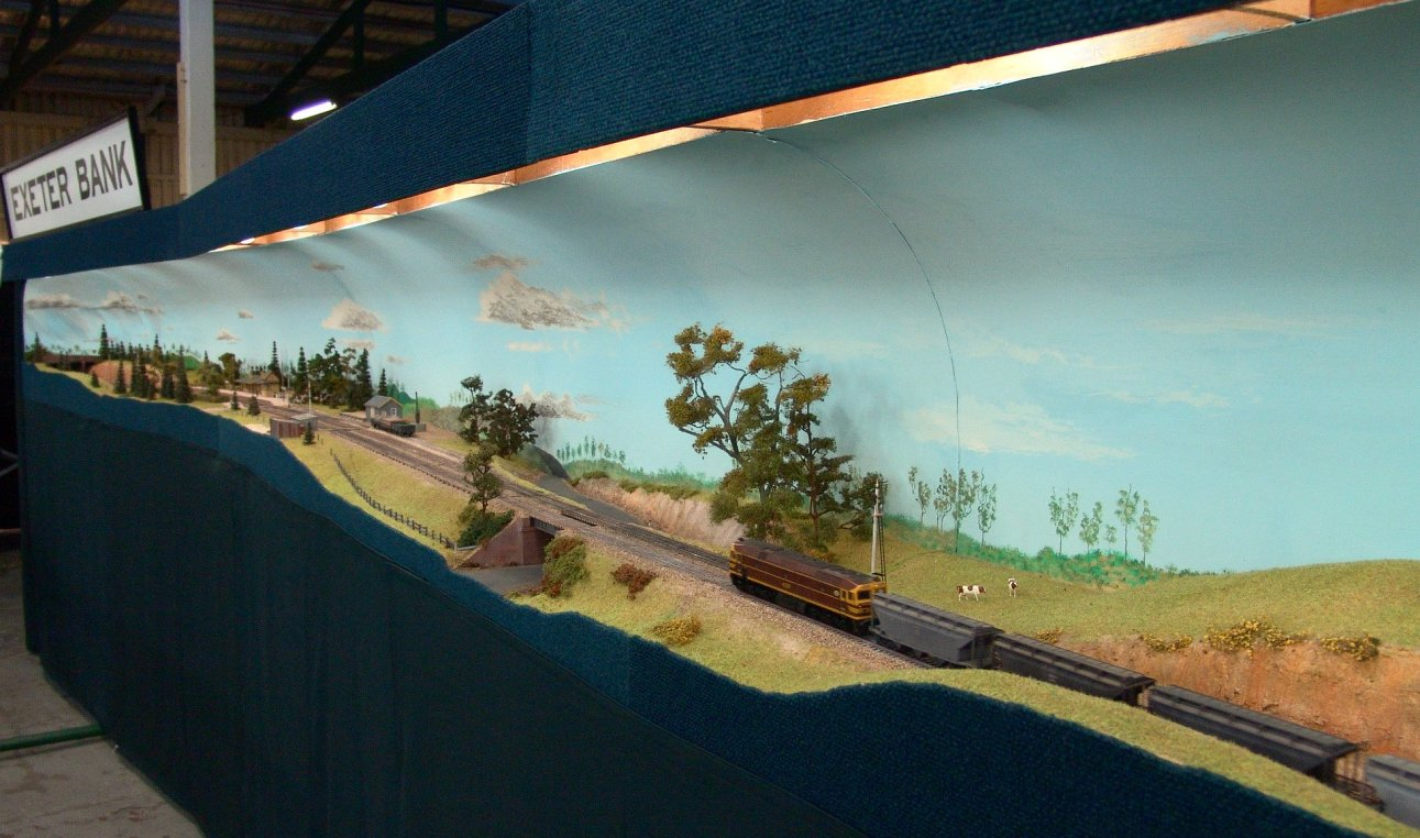 A 442 class locomotive hauling a wheat train on the Exeter Bank model railway at the 2005 Brisbane Miniature Train Show. Exeter Bank is based on NSWGR, and was built to commemorate the late Rodney James.